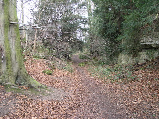 Path Through Anston Stones Wood. This path through Anston Stones Wood passes by the limestone rocks on the right.